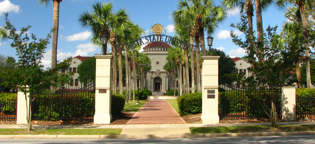 Gate at the main entrance of Valdosta State.